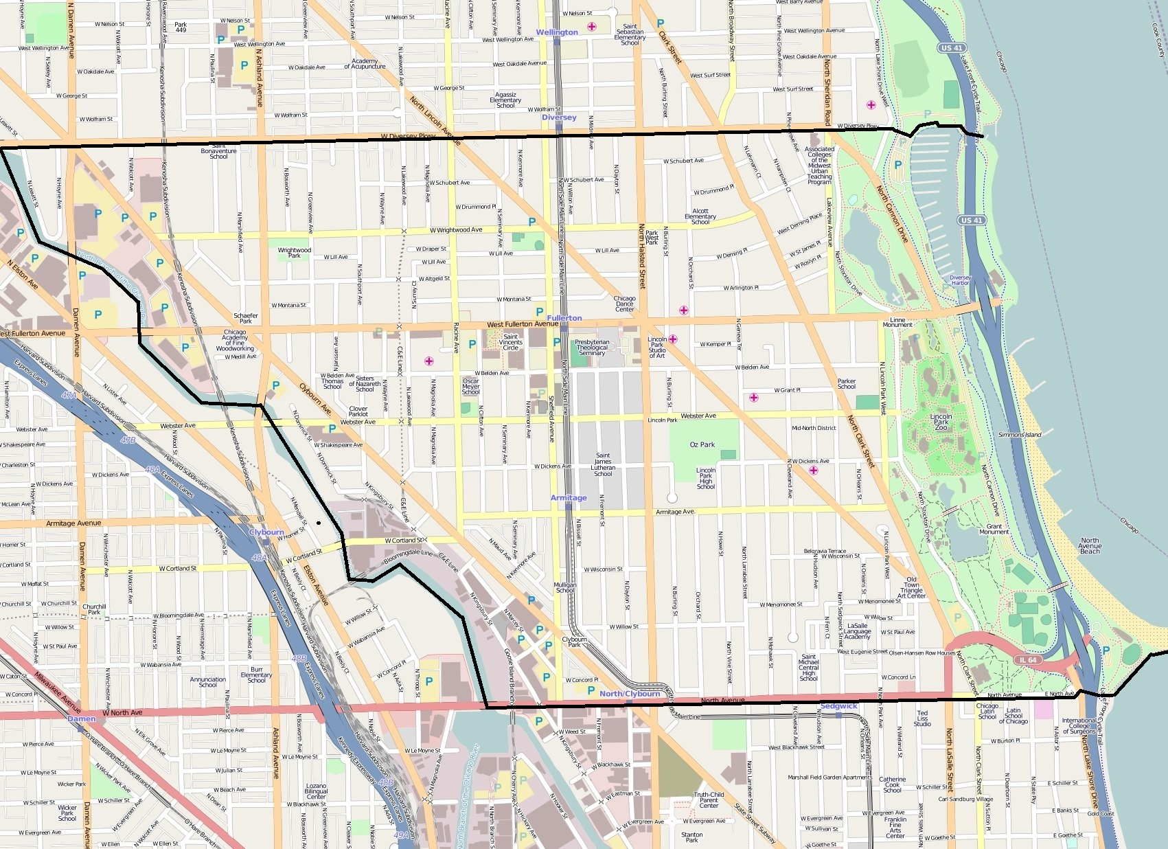 Lincoln Park, Chicago This map may be incomplete, and may contain errors. Don't rely solely on it for navigation.